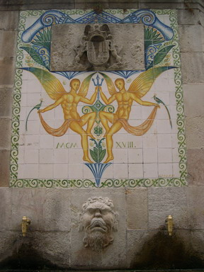 Fountain in Cucurulla Street, Barcelona, Catalonia.